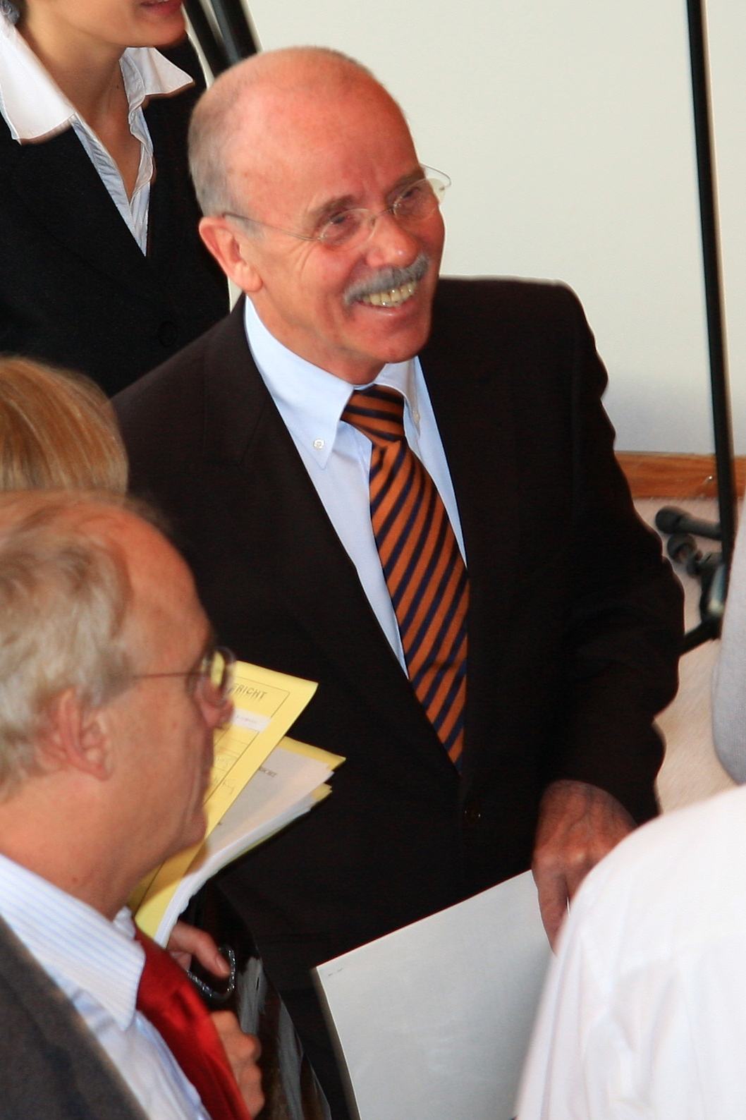 The German TV-journalist Karl-Dieter_Möller in the Federal Constitutional Court of Germany during the hearing about the Telecommunications data retention